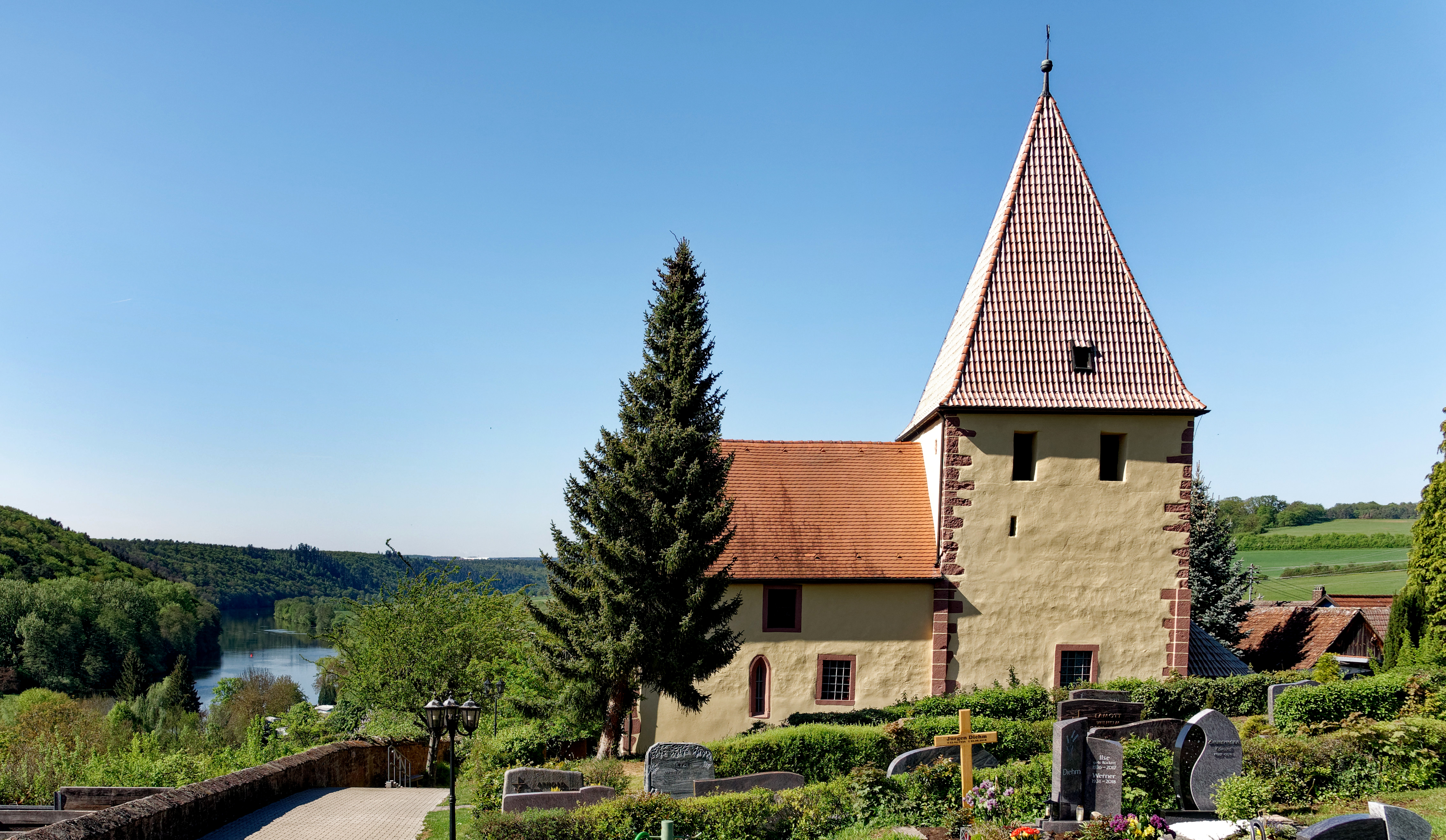 The St. Jame´s Church in Urphar.